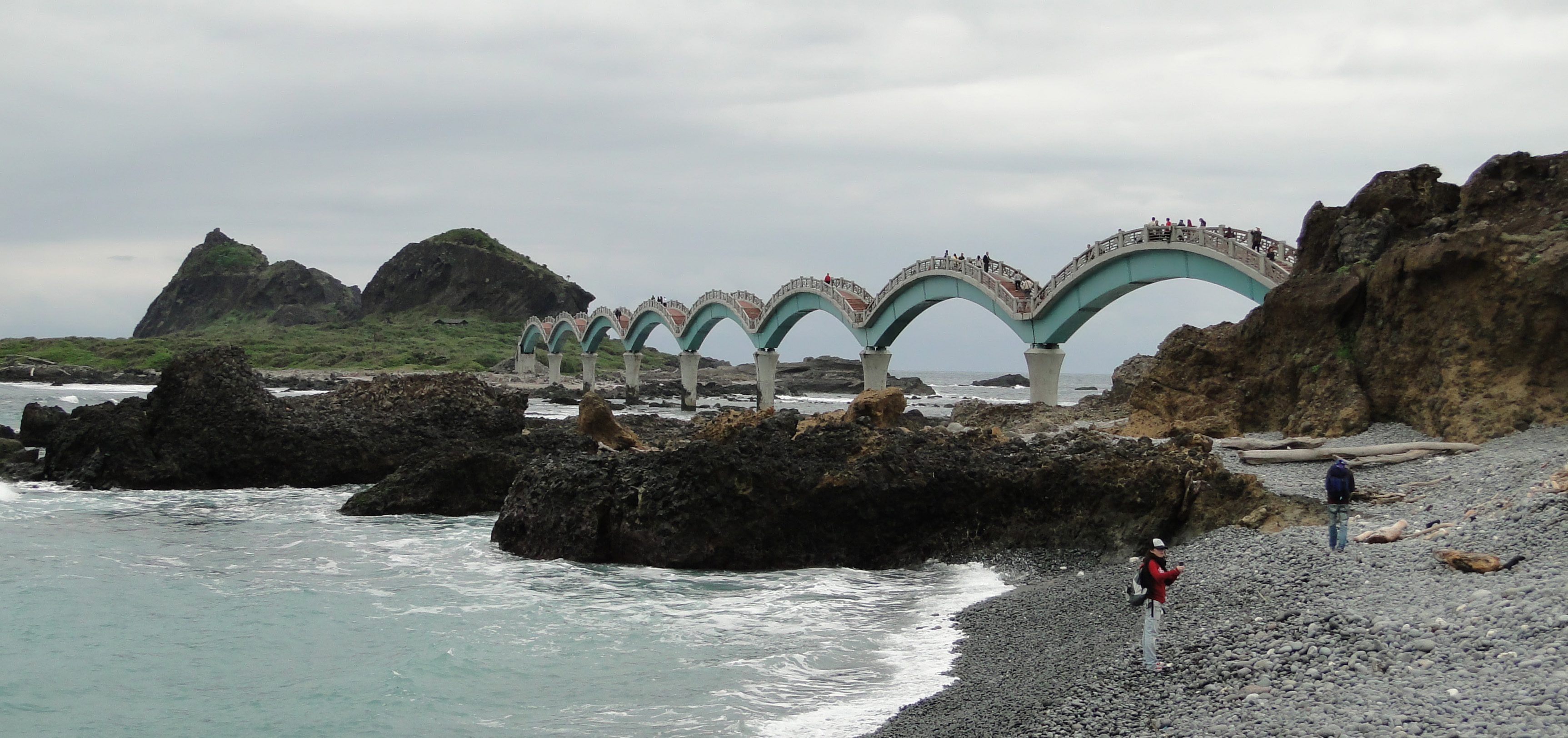 Sansiantai Bridge, Taitung County, Taiwan